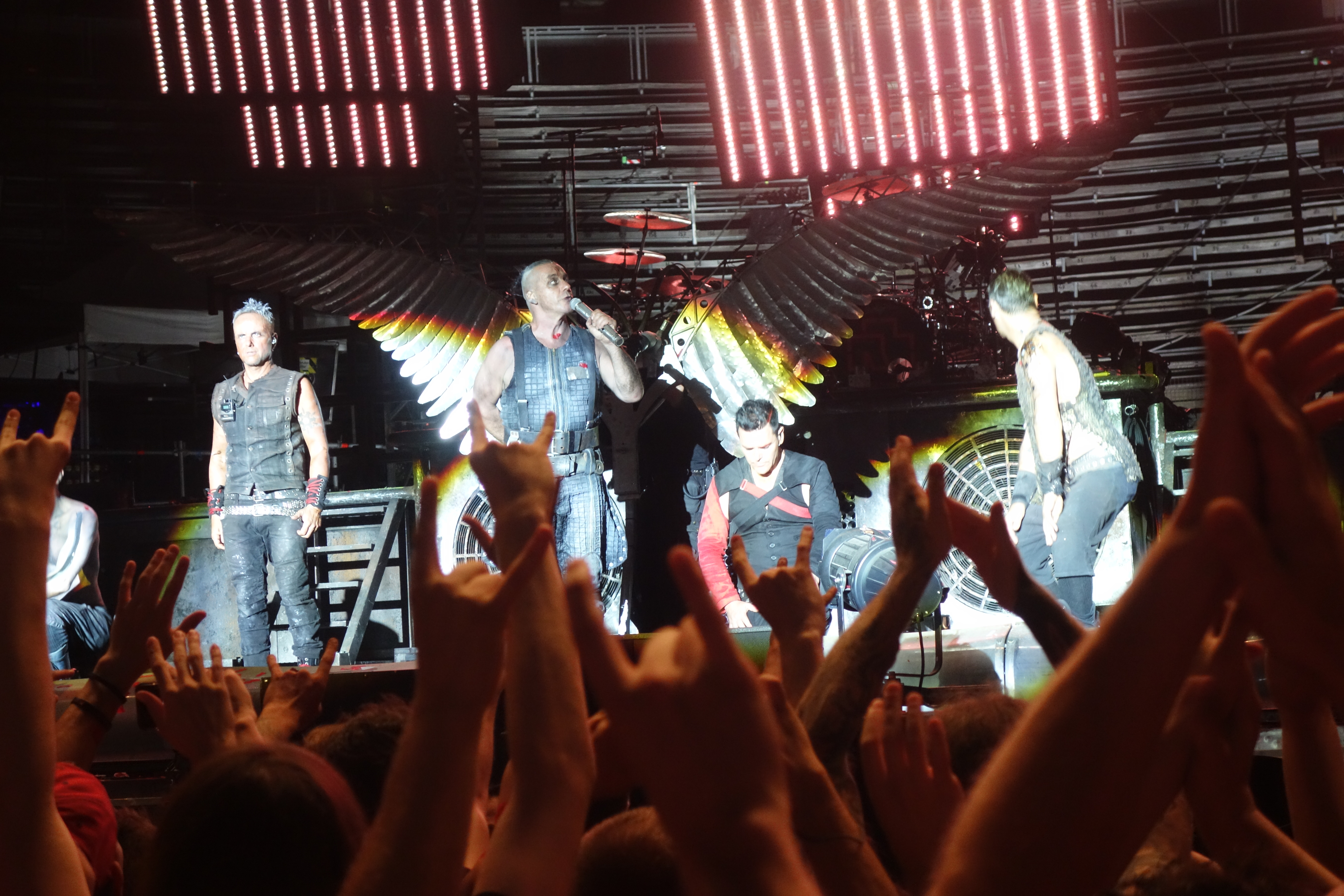 Rammstein in the Arena of Nîmes